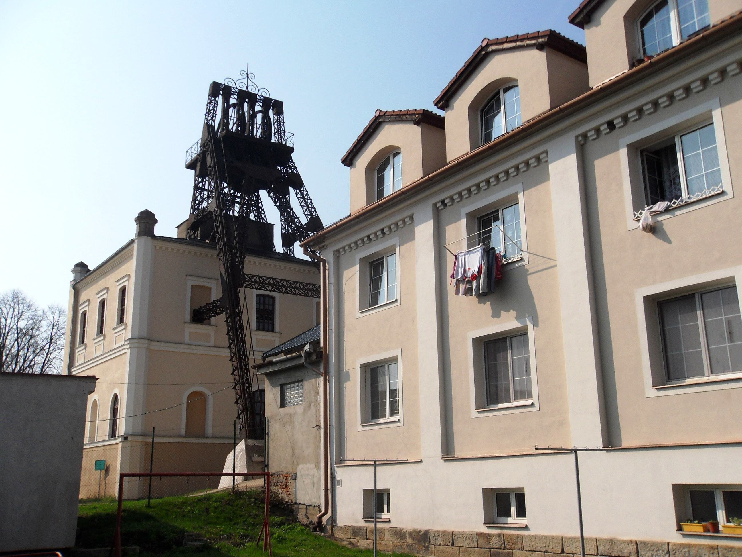 Former Simson coal mine, Zbýšov, Brno-venkov District, Czech Republic